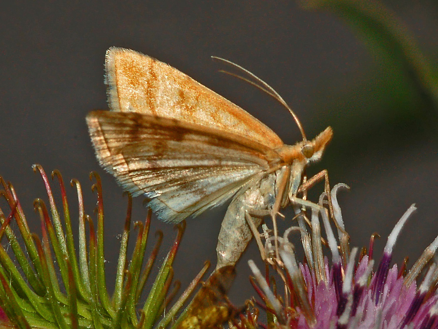 "Udea lutealis". La Thuile, Aosta, Italy